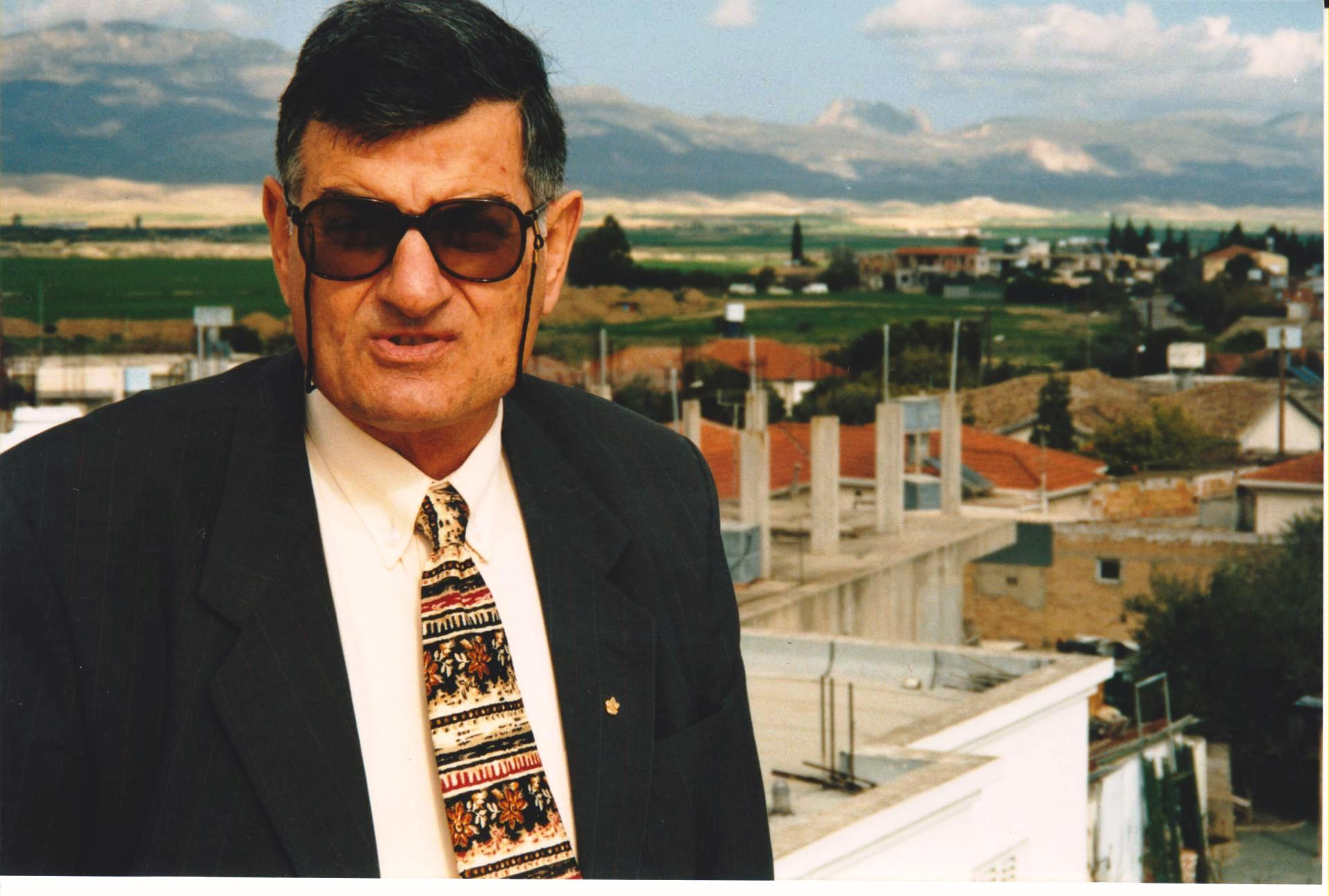 Andreas G. Thomas, on a rooftop in Vorios Polos, Nicosia, February 1999. Pentadactylos can be seeing in the background. Photo: C.Moisa